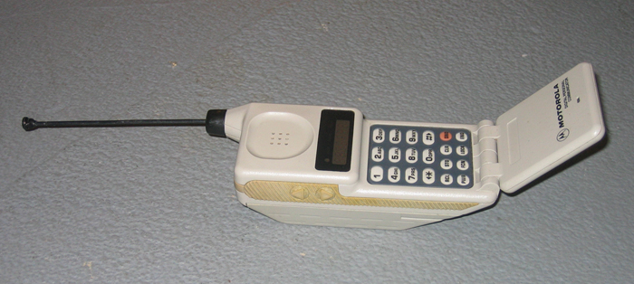 Motorola MicroTAC Digital Personal Communicator. I took this picture of a light gray Motorola MicroTAC. This phone, with a 1990 manufactor date and 1989 software date, is rather unusual. It is light gray in color with gold side grips and volume buttons. What makes it so unusual is the fact that it features the 1989 body styling of the alpha-numeric models, but houses a base-model DPC. Base DPC's did not get volume buttons like this, nor did they have the distinguished keypad of higher-end 89 models. Also, the software version lacks a menu or battery meter. The phone was made by Motorola for Honolulu Cellular, and is very similar to the white Business Classic made for Cellular One.